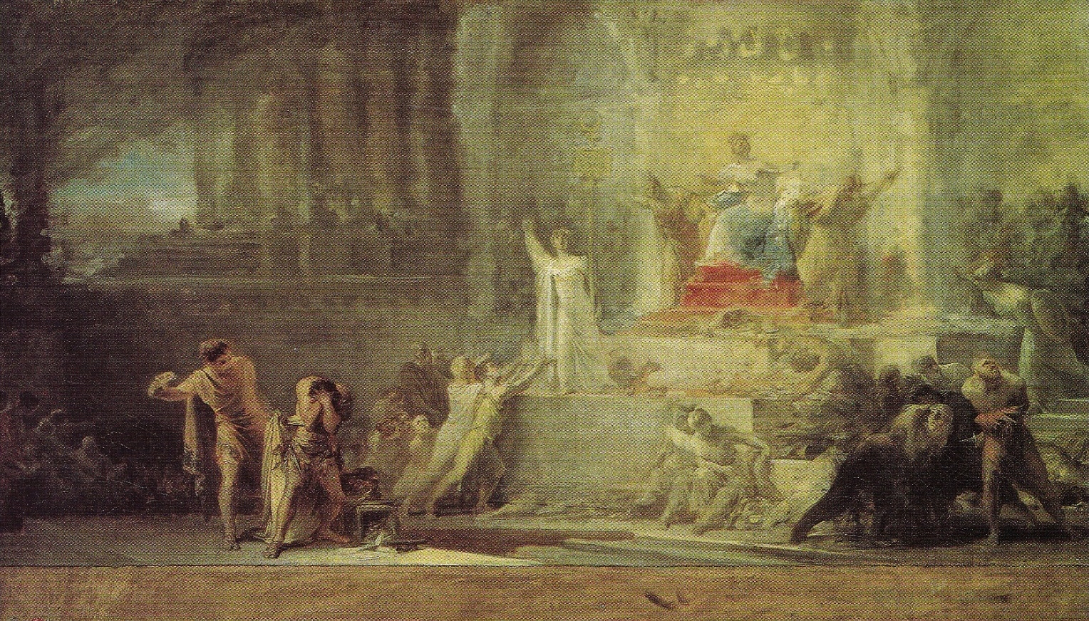 Allegory of the Constitution of 1822, by Domingos Sequeira (National Museum of Ancient Art, Lisbon, Portugal).